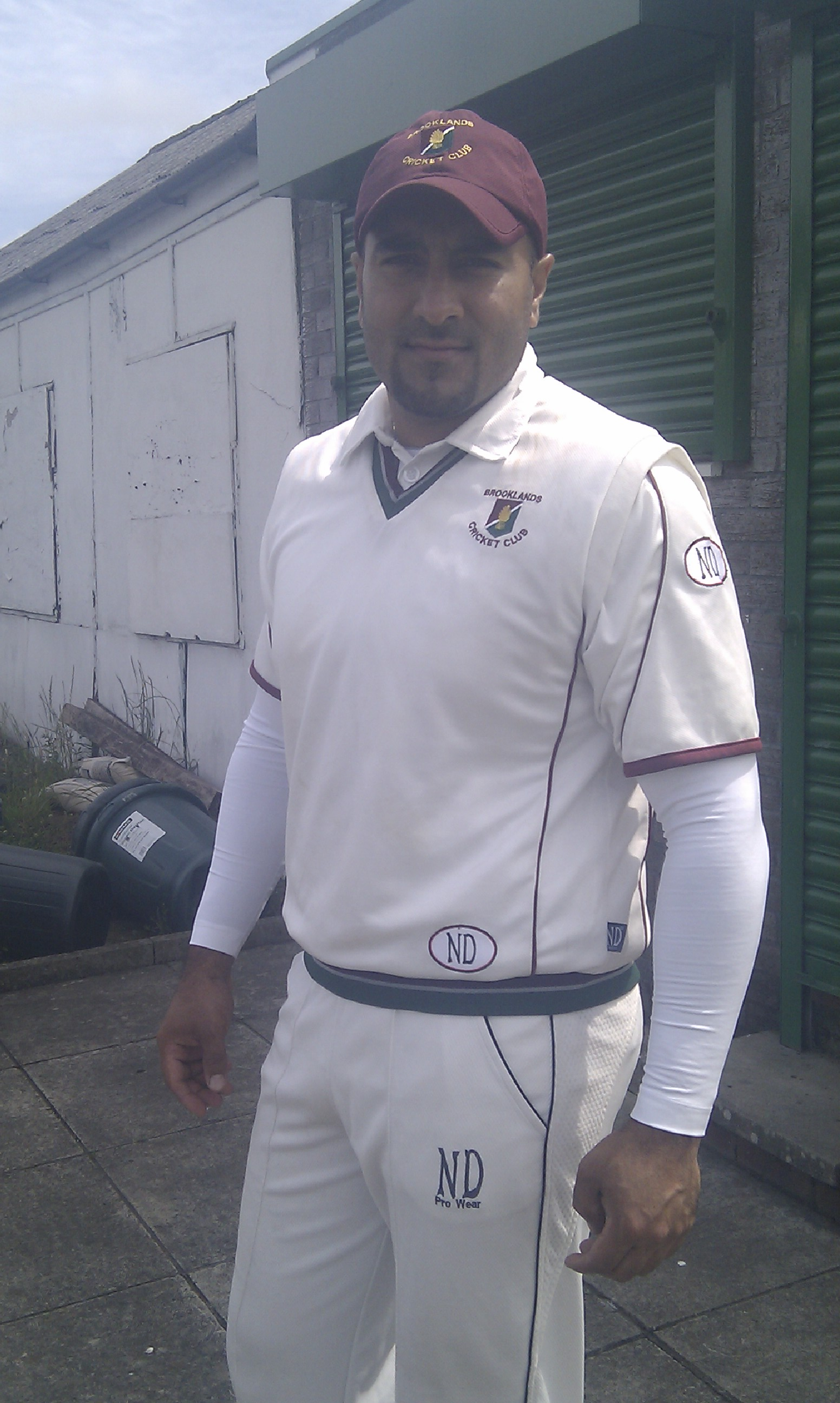 Nafees Ahmed Din, Cricket Player